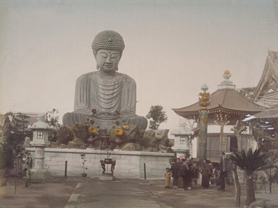 Nōfukuji, Kobe, Hyōgo Prefecture, Japan